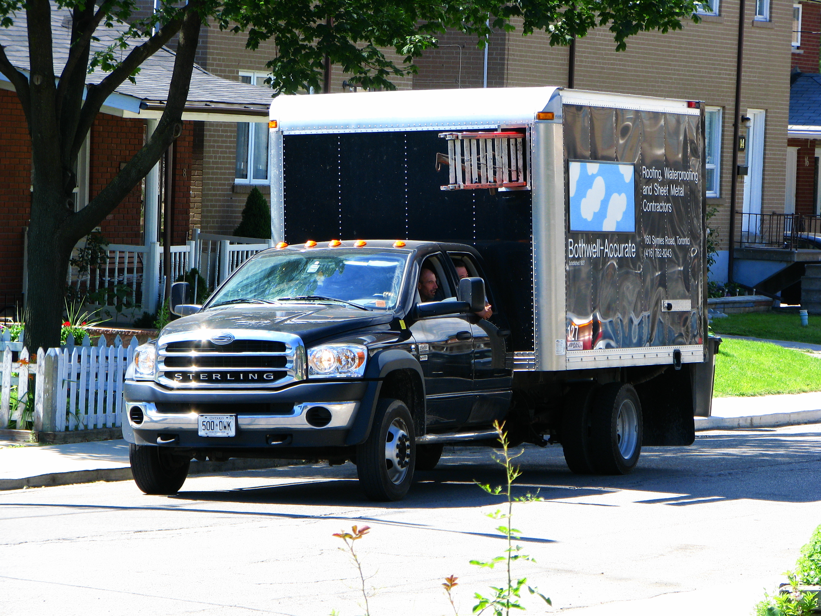 A photograph of a Sterling Bullet truck. These were rebadged versions of the 2008-2009 Dodge Ram 4500 and 5500 chassis cab.